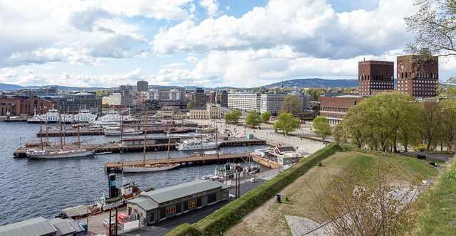 Pipervika, in front of Oslo City Hall